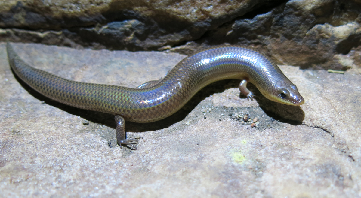 Sundevall's Writhing Skink (Mochlus sundevallii subsp. sundevallii), Soutpansberg Limpopo